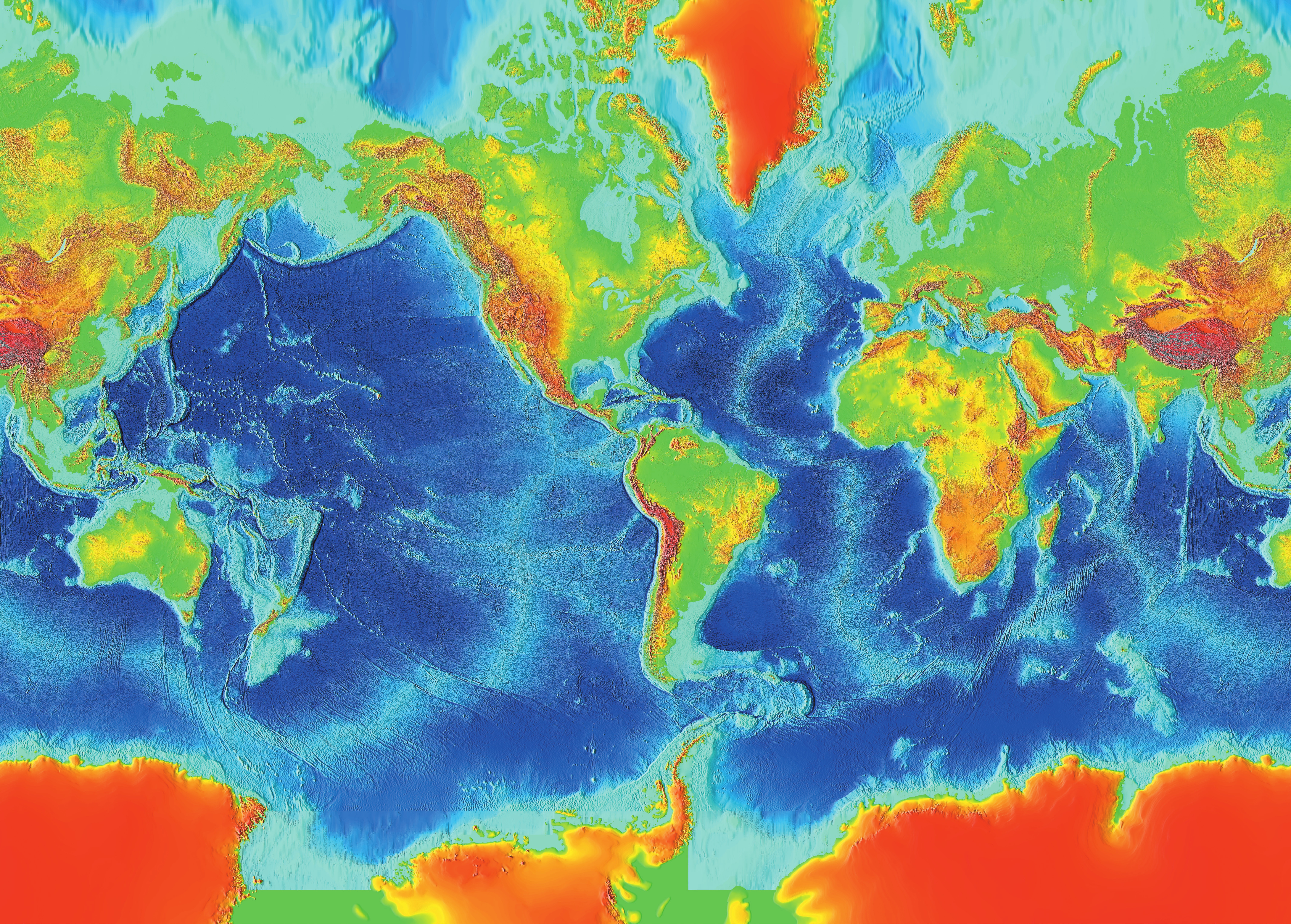 Surface of the Earth, Revised March 2000 World Data Center for Marine Geology & Geophysics, Boulder NGDC DATA ANNOUNCEMENT NUMBER: 00-MGG-05 This image was generated from digital data bases of land and sea-floor elevations on a 2-minute latitude/longitude grid (1 minute of latitude = 1 nautical mile, or 1.853 km). Assumed illumination is from the west; shading is computed as a function of the east-west slope of the surface with a nonlinear exaggeration favoring low-relief areas. A Mercator projection was used for the world image, which spans 390° of longitude from 270° West around the world eastward to 120° East; latitude coverage is ±80°. The resolution of the gridded data varies from true 2-minute for the Atlantic, Pacific, and Indian Ocean floors and all land masses to 5 minutes for the Arctic Ocean floor. See also: For detailed regional maps